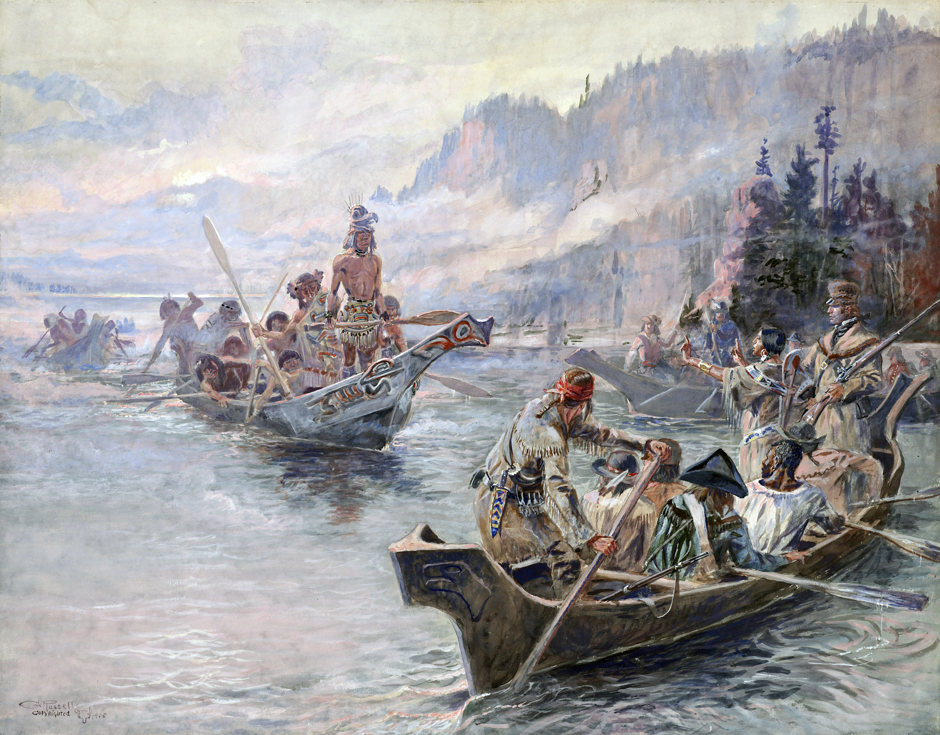 Painting Lewis and Clark on the Lower Columbia (Height: 24 in (60.9 cm); Width: 28 in (71.1 cm) dimensions QS:P2048,24U218593;P2049,28U218593) by Charles Marion Russell; Opaque and transparent watercolor over graphite underdrawing on paper